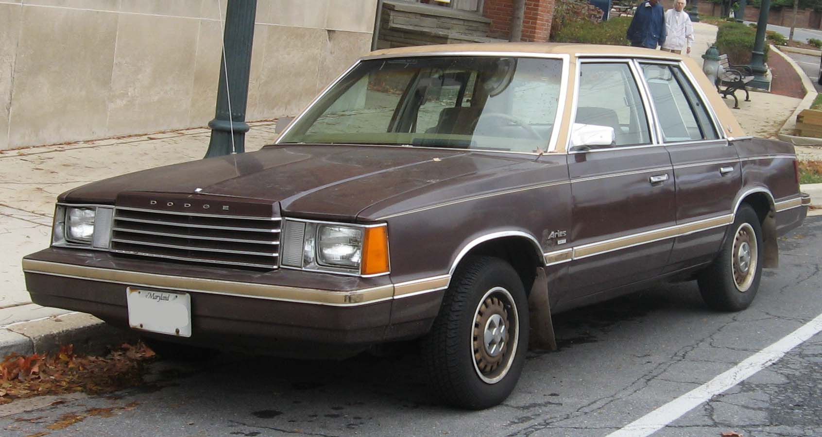 1981-1983 Dodge Aries photographed in Kensington, Maryland, USA.